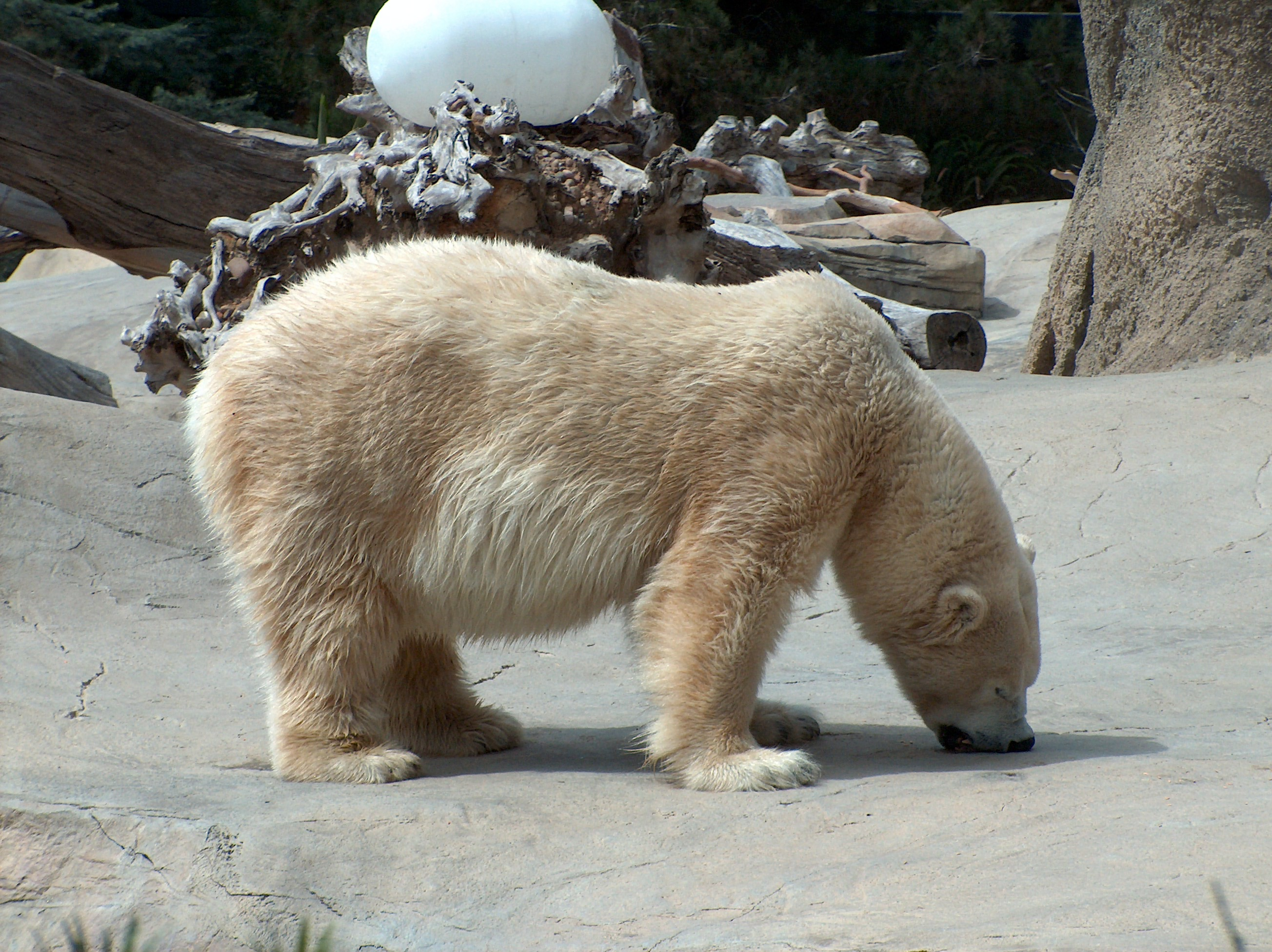 Polar Bear at the San Diego Zoo. Photo taken by User:Mike R on 8 August, 2005.